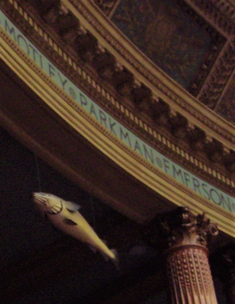 The Sacred Cod of Massachusetts in the Representatives chamber o f the Massachusetts State House